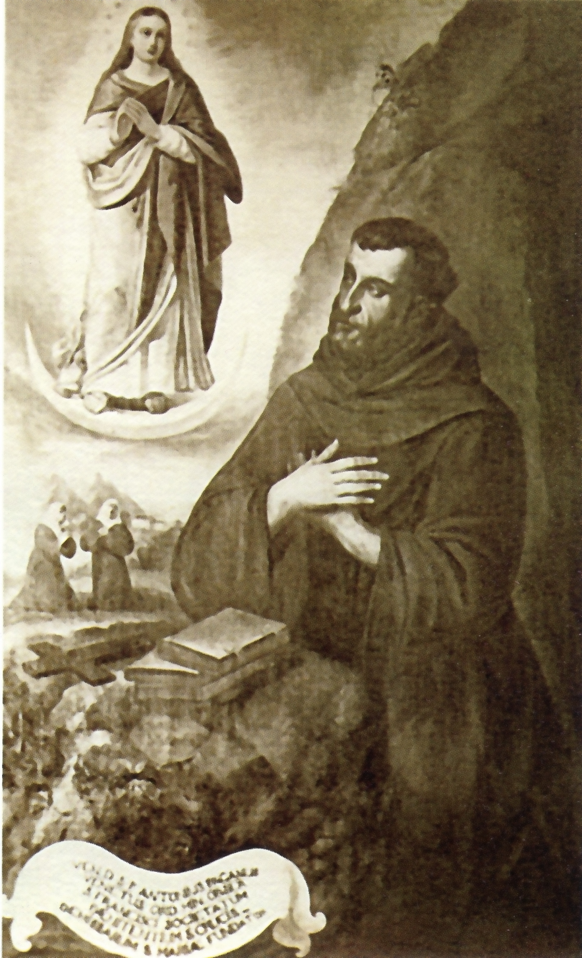 It's a portrait of the Dimesse's Founder, Antonio Pagani. He's Italian, he was born in Venice, in 1526.